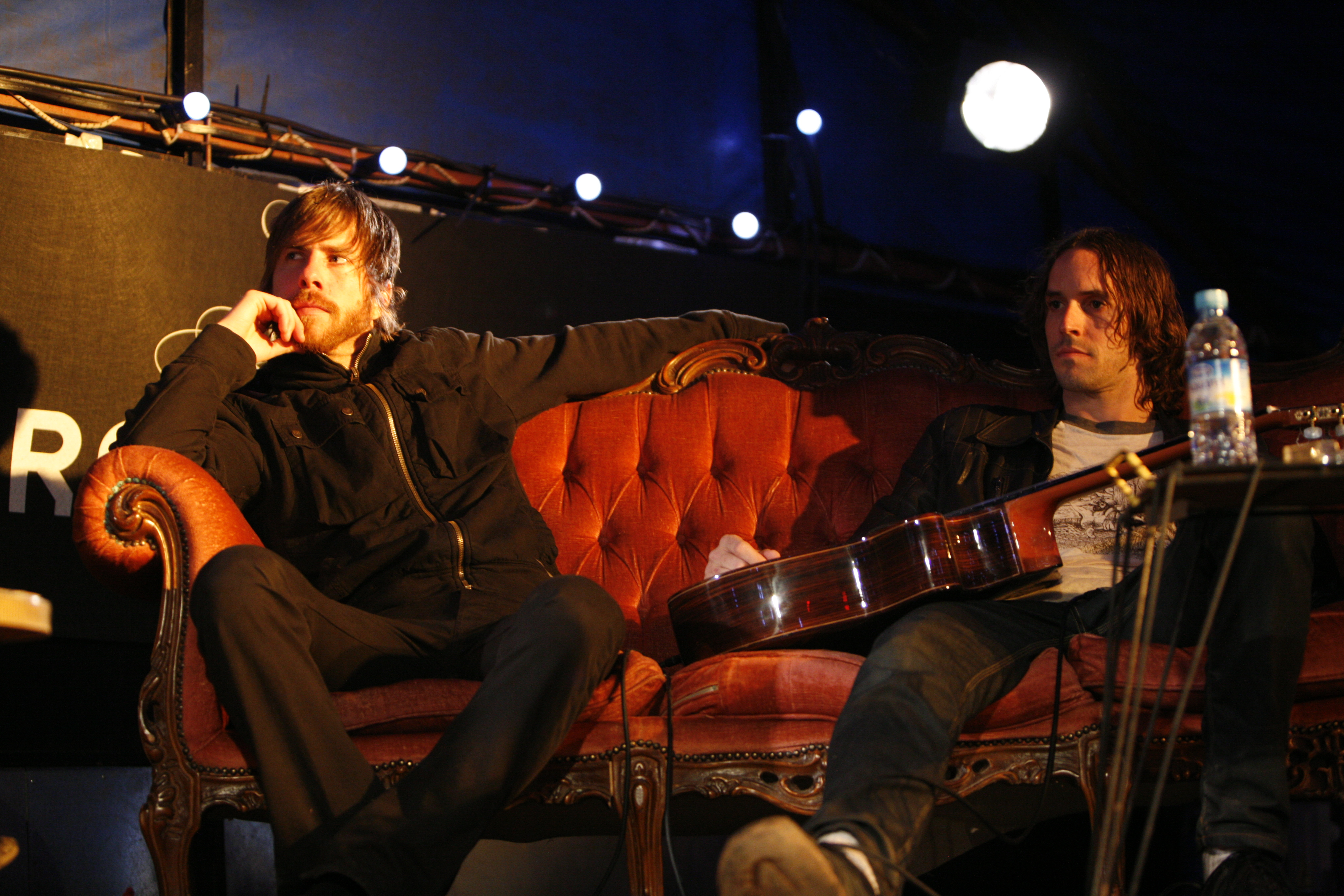 Juliette and the Licks at the Eurockéennes of 2007